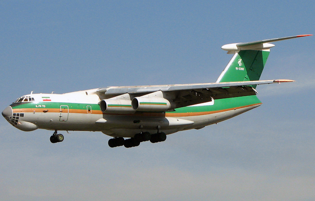 An transportation Ilyushin Il-76TD belong to IRGC Air Force landing at Mehrabad International Airport.